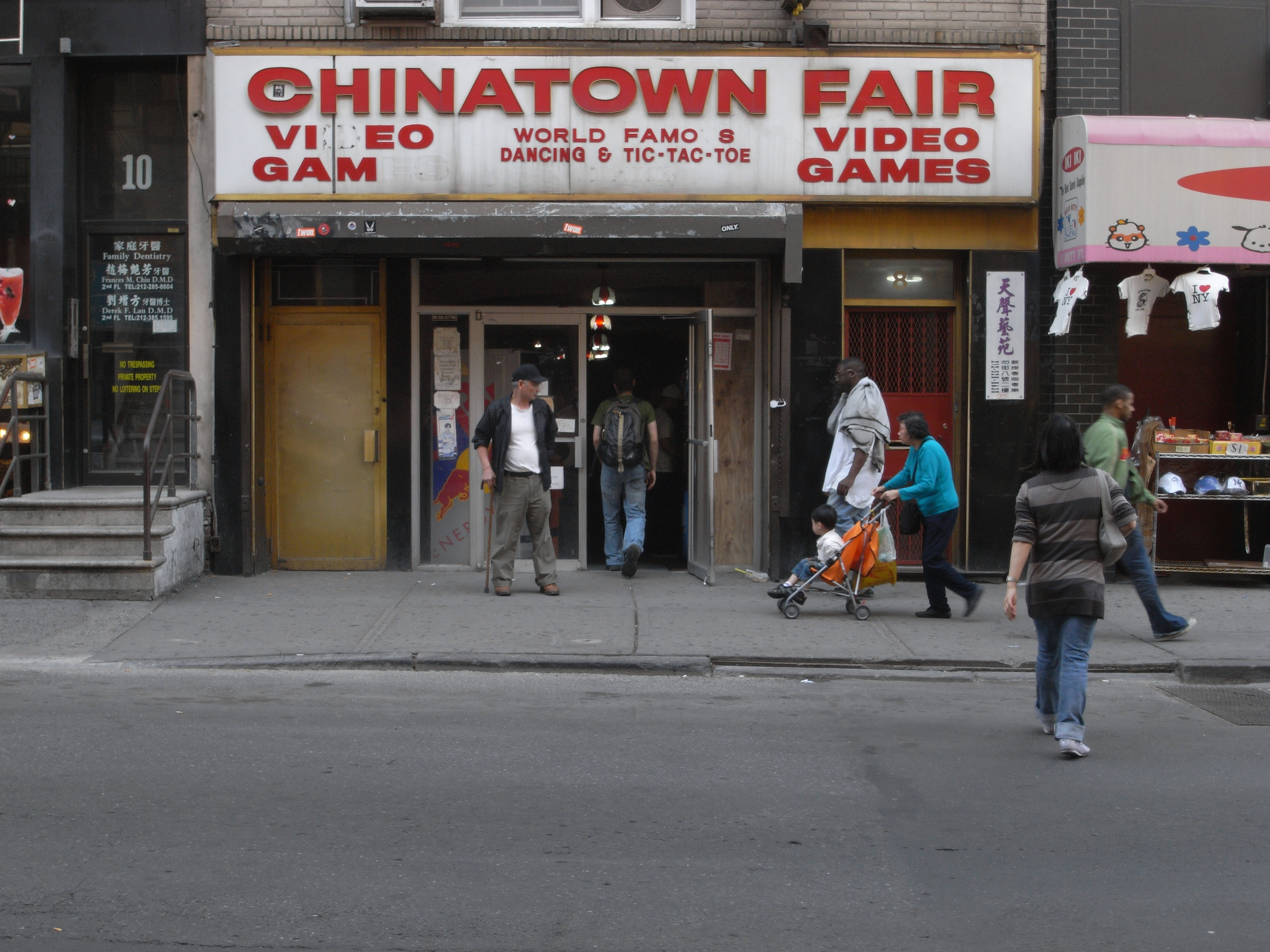 The exterior of the arcade Chinatown Fair.